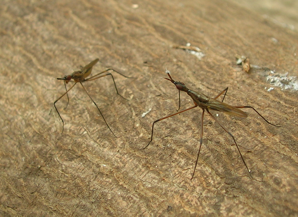 A Telostylinus lineolatus Neriidae male aggressively posturing to another (Bangalore, India)